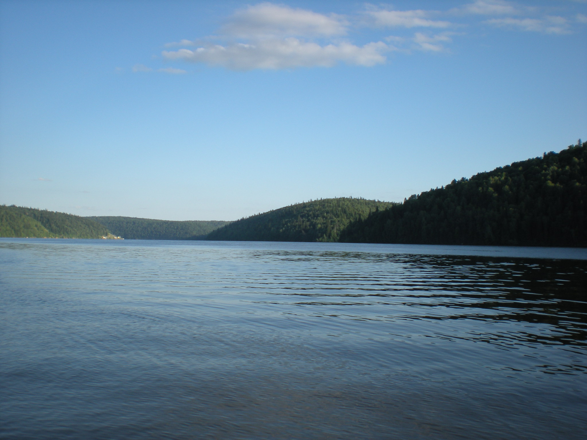 Pavlovka Reservoir from the Ural in Russia. Going from Ufa to Tscheljabinsk.